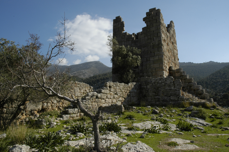 J. M. Harrington, personal digital image